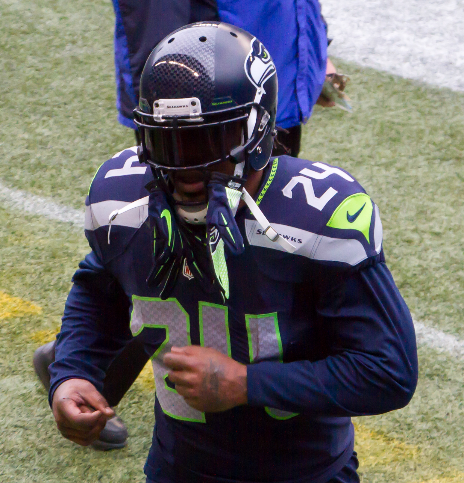 Marshawn Lynch, Seahawks vs Rams 12.29.13